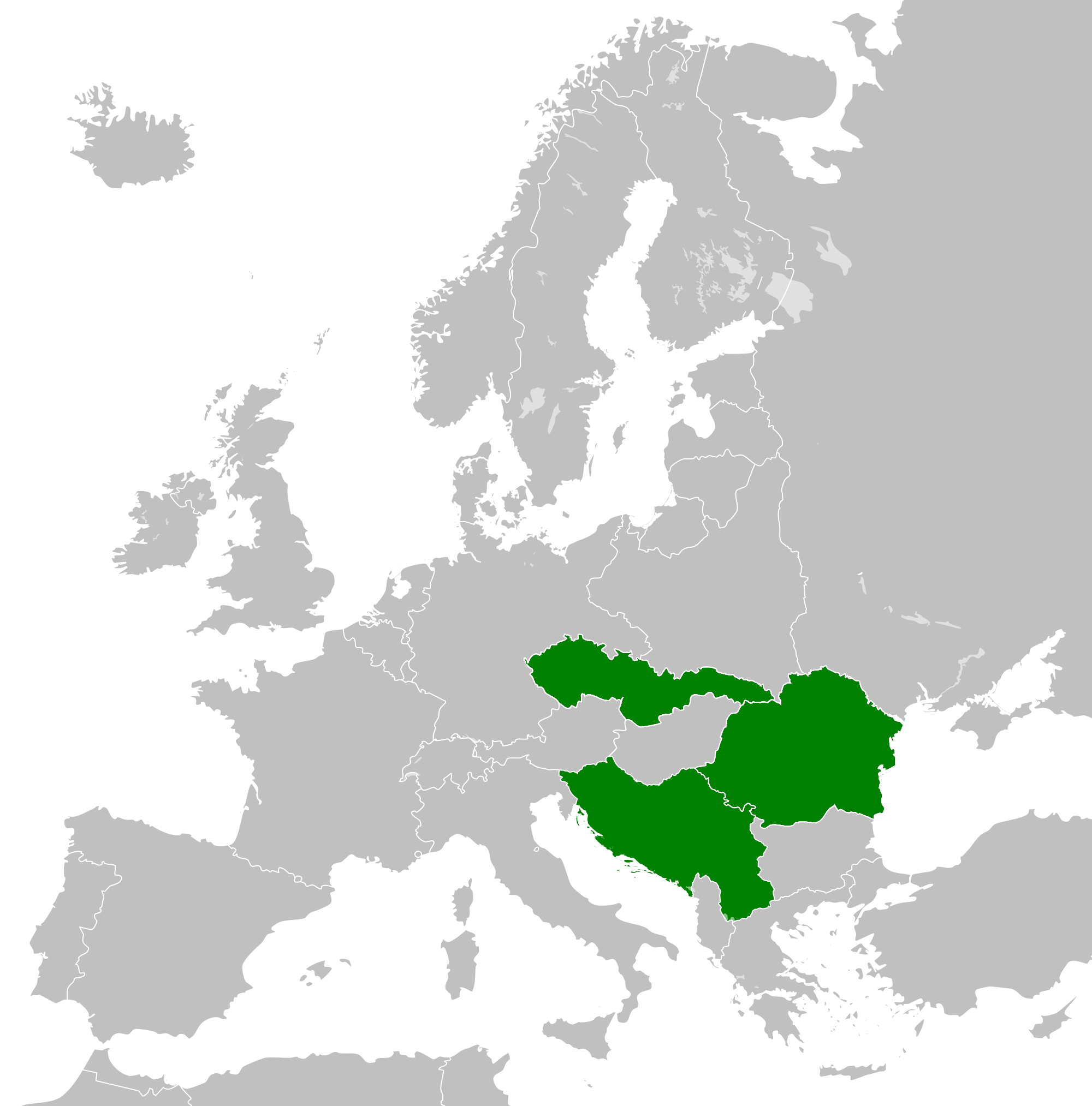 Map of the Little Entente alliance in Europe 1921-1938